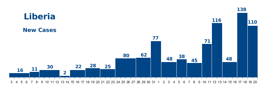 Liberia New Ebola Cases from Jul 2 to Aug 20, 2014